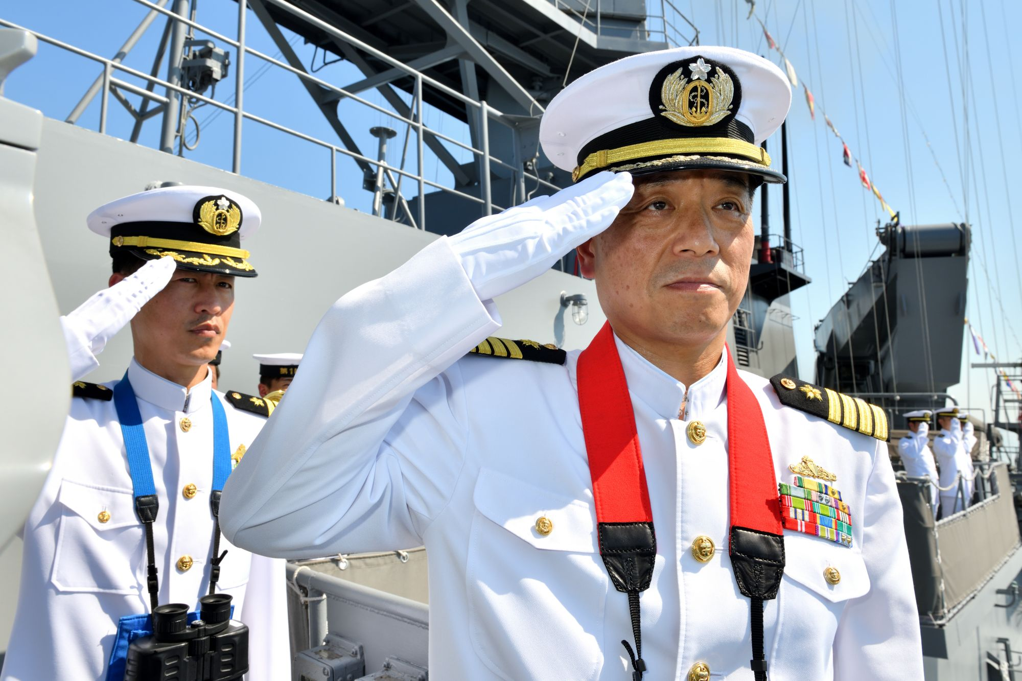 JMSDF commissioned officer Summer Dress Uniform